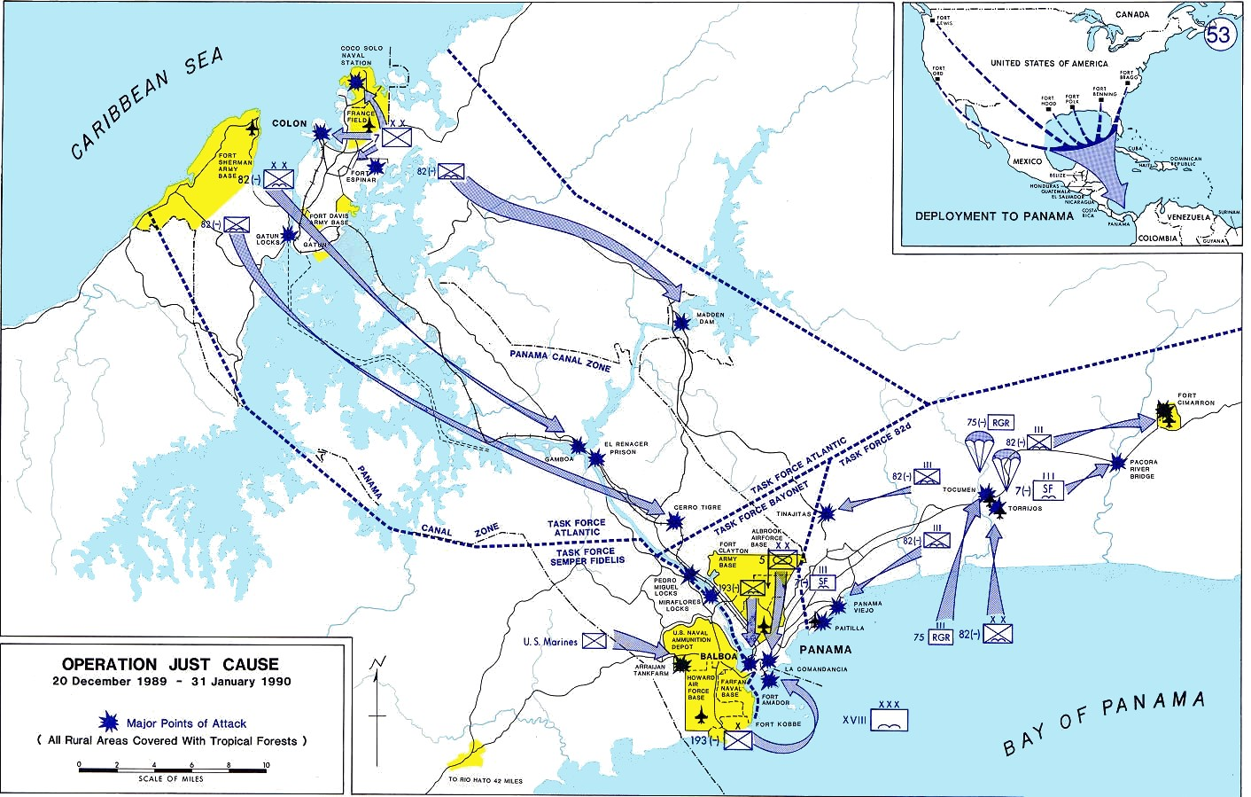 Map of US-Operation Just Cause, Invasion of Panama, December 1989 - January 1990.